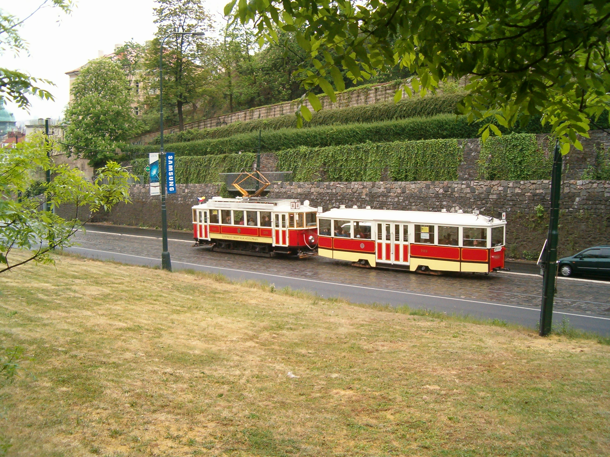 Historical tram in Chotkova street in Prague